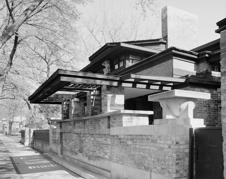 Entrance to Studio of Frank Lloyd Wright Home and Studio